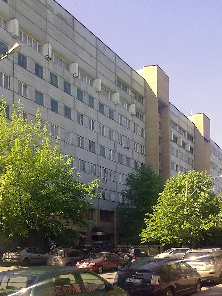 12 Main directorate of the Ministry of Defence of the Russian Federation